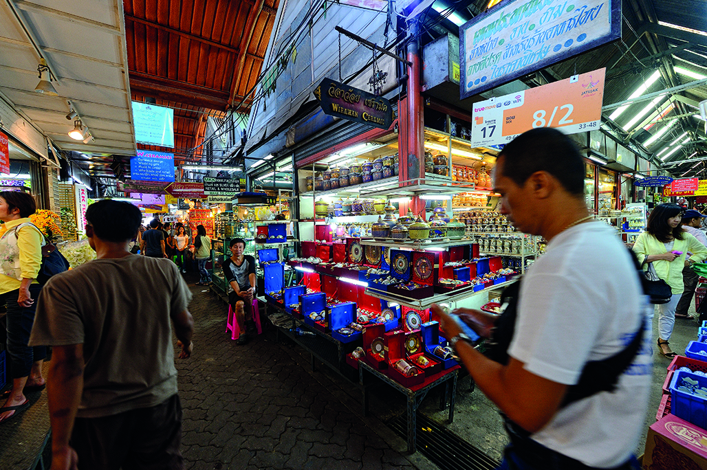 Located on Phaholyothin road, Chompol subdistrict, Chatuchak district, Chatuchak Market is the Thailand’s largest market, as it offers all kinds of goods from all regions, with over 10,000 shops divided into product categories – clothing and accessories, furniture and home decorations, pets and pets accessories, plants and gardening tools, handicrafts, food and beverage, art and gallery, books, and more. The market was founded in order to respond to the closure of Sanam Luang market in 1982. A plot of land for construction was donated by the State Railway of Thailand. Initially, the market was called Phaholyothin market, and later changed to “Chatuchak Market” which means a combination of the four regions. The clock tower is the famous meeting point in Chatuchak Market. It was built, in cooperation with the Market Administration and Thai-Chinese Merchant Association, in 2530 on the occasion of King Bhumibol Adulyadej’s 60th Birthday Anniversary